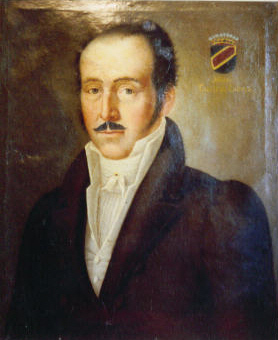 Portrait of Henrik Count Kaboga (1818–1881)